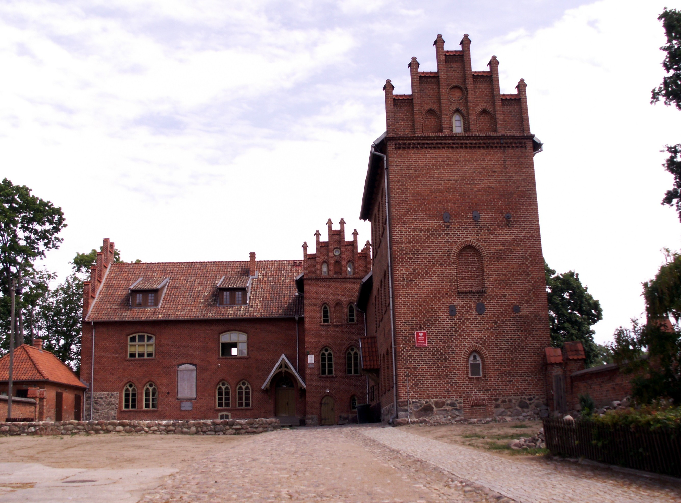 Olsztynek